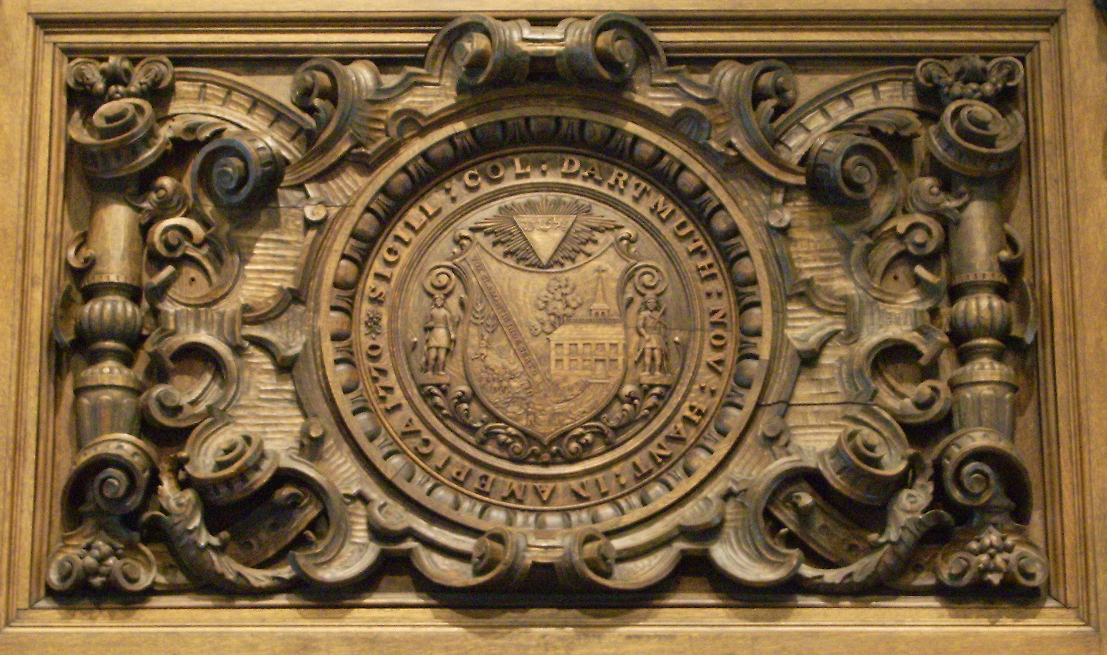 Photograph of the Seal of Dartmouth College in "Commonground" (originally a dining hall called "Commons") in the Collis Center at Dartmouth College in Hanover, New Hampshire.